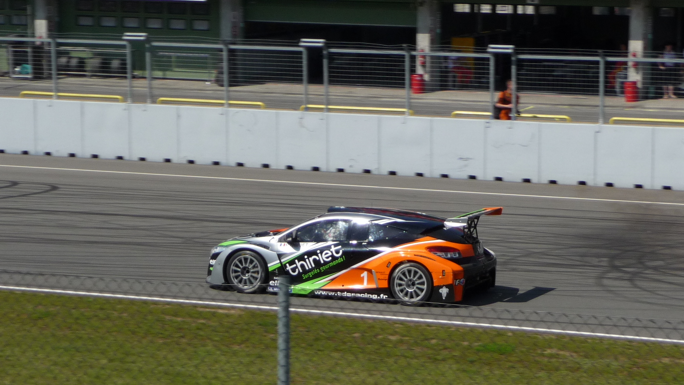 Pierre Thiriet, Renault Mégane Trophy, 2nd race, 2010 Brno World Series by Renault -10 -5 -3 -2 ◄ ► +2 +3 +5 +10